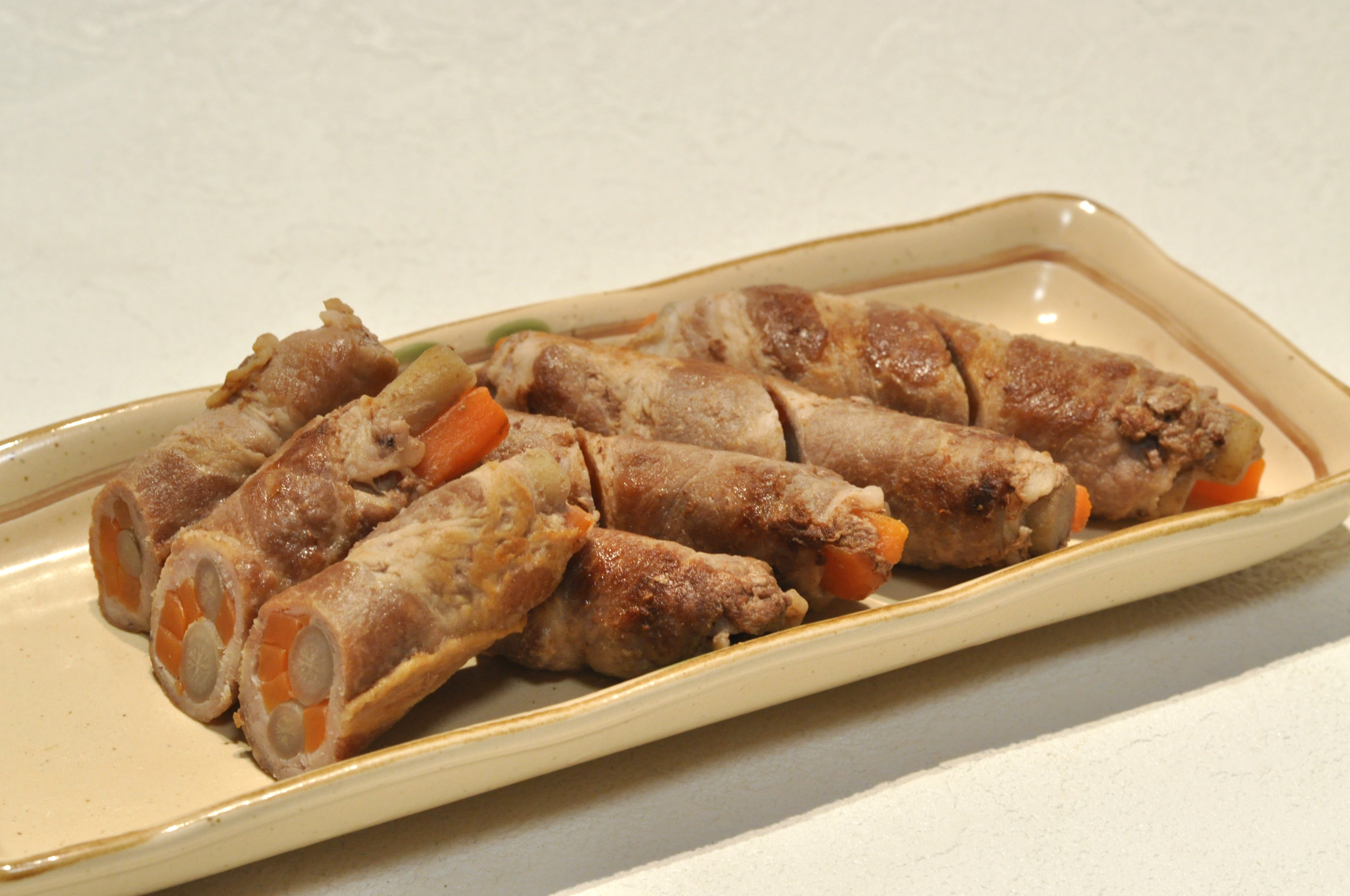 One of Japanese foods prepared for New Year's "Yawata-maki"